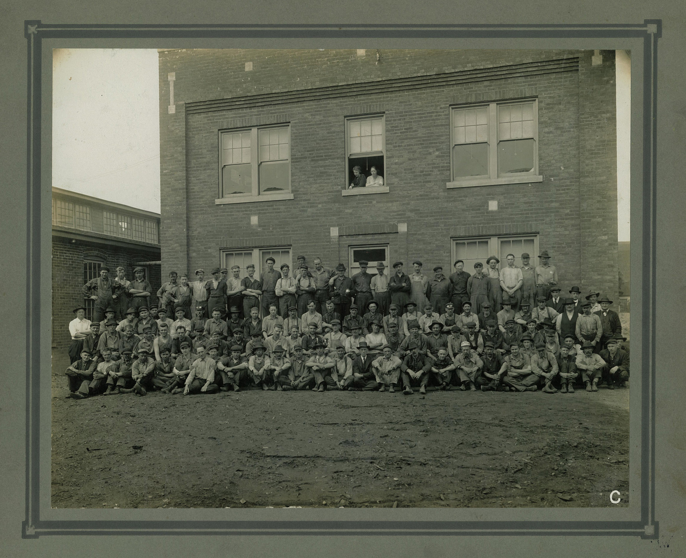 Stedman's Foundry & Machine Works staff photo Circa 1840, Cochran, Indiana